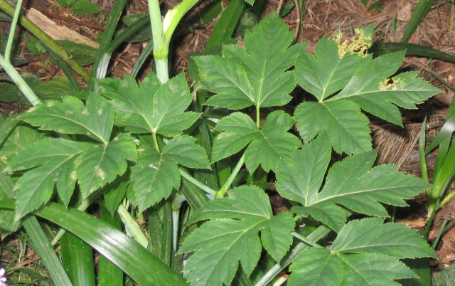 Ashitaba plant * Photographer: User: Sphl * Date Taken: September 14, 2005 * Location: Machida City, Tokyo